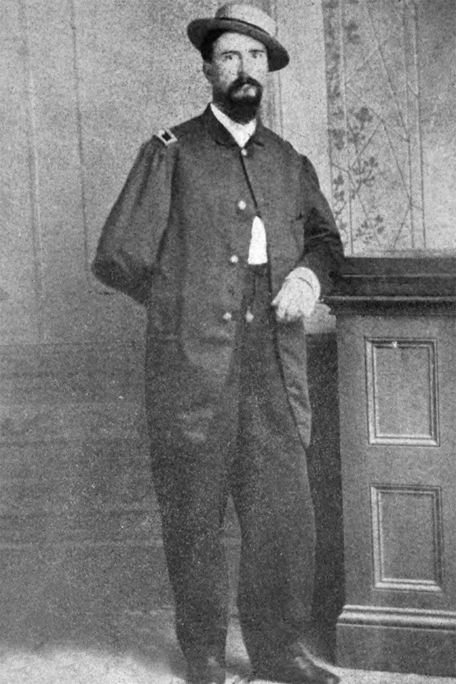 Colonel William L. McMillen, The Old Northwest Genealogical Quarterly, 1898. Columbus, Ohio: Old Northwest Genealogical Society, 1898